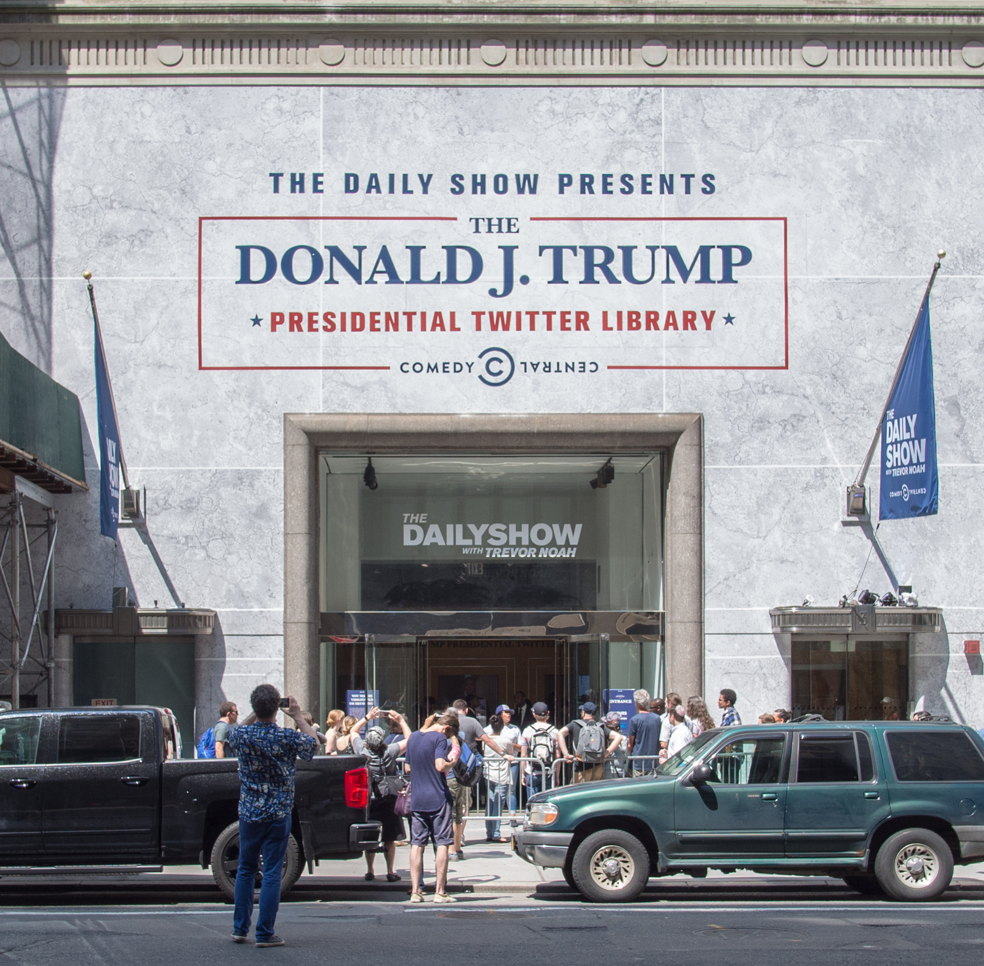 The Daily Show's Donald J. Trump Presidential Twitter Library at 9 W 57th St. in Manhattan.